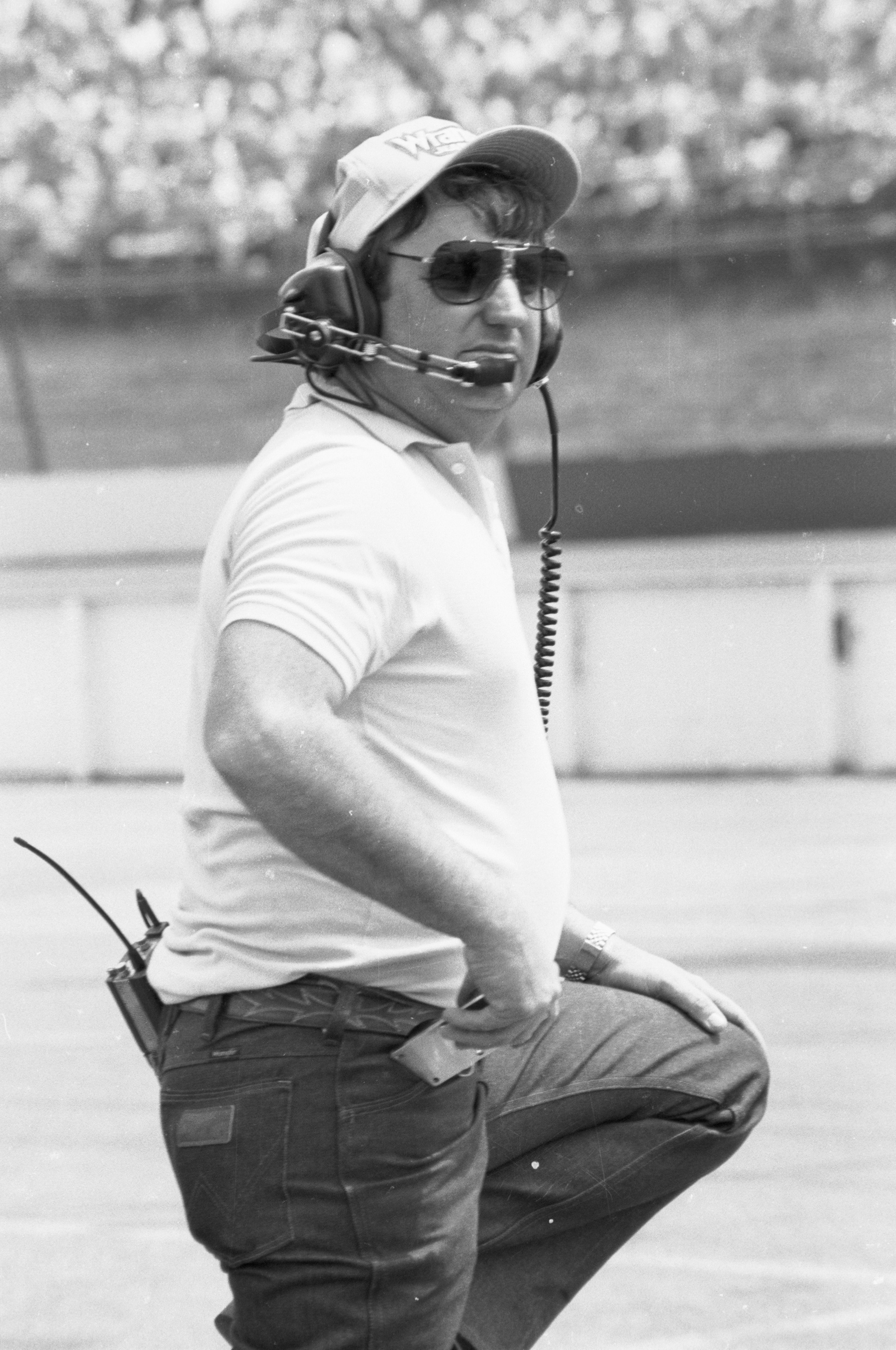 Former NASCAR driver and current owner Richard Childress in the Pocono pits in 1986. Photo By Ted Van Pelt